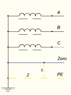 TN systems 1-combined 2-separated